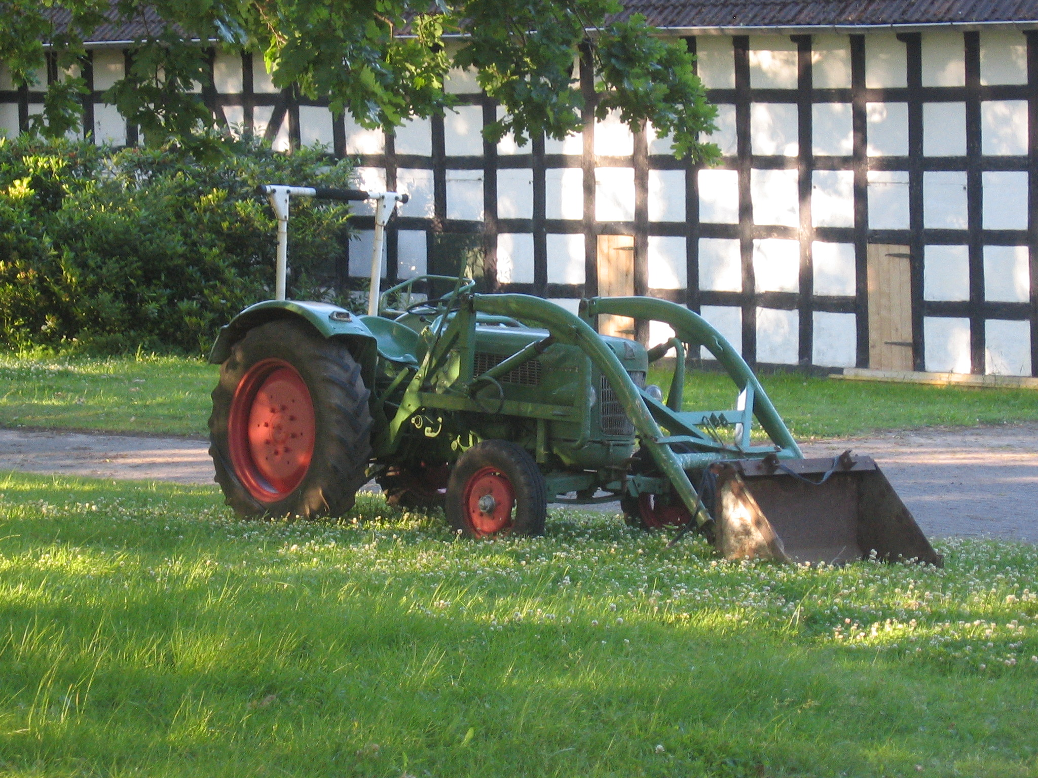 Fendt Farmer tractor in front of a timber framed house in Rödinghausen, District of Herford, North Rhine-Westphalia, Germany.